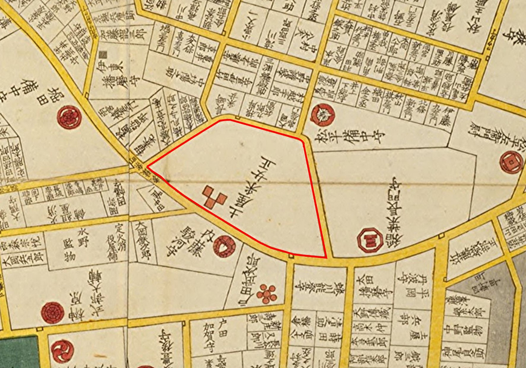 Residence of Tsuchiya at Edoa